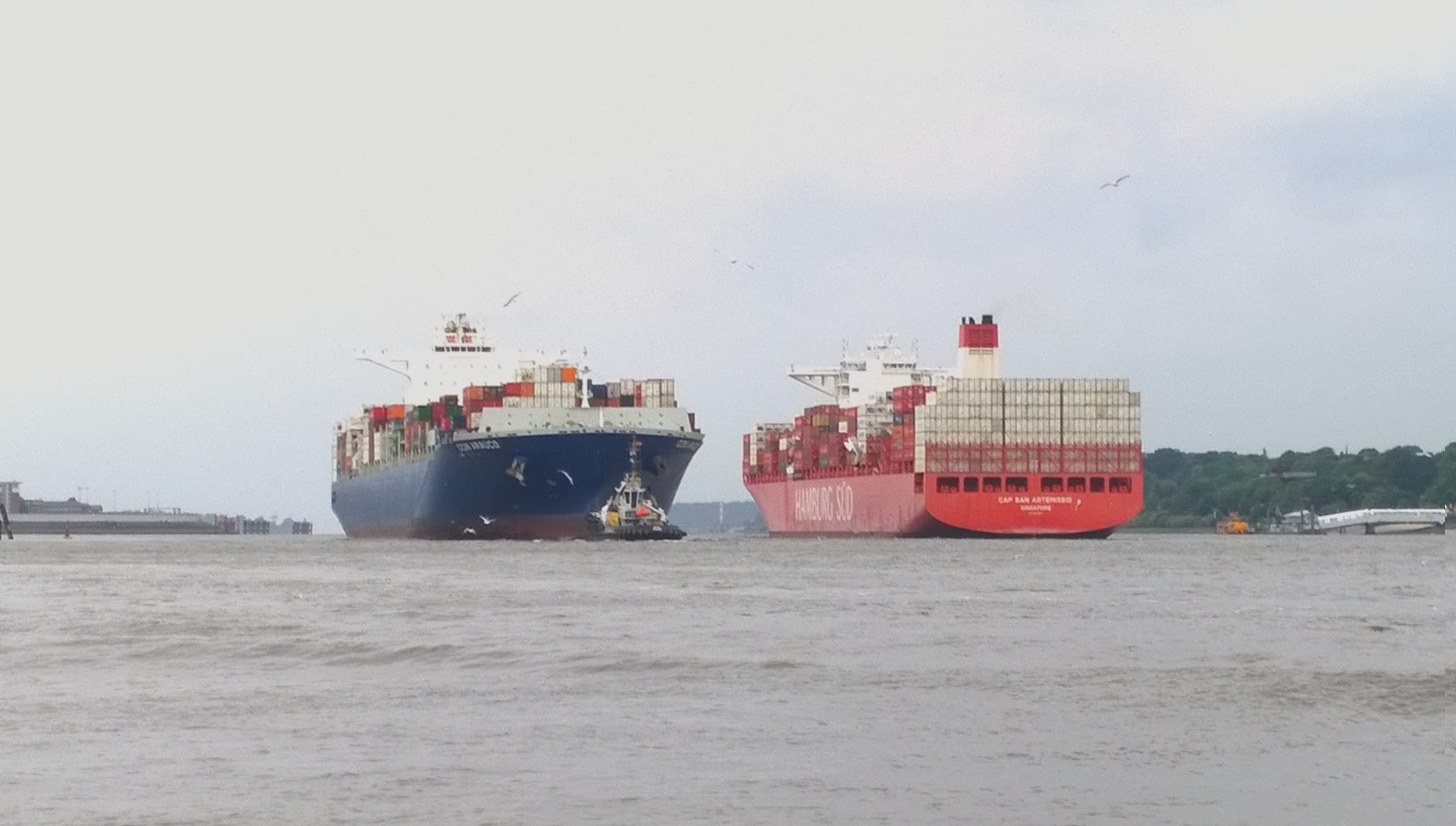 Ship Encounter on the Elbe - CCNI Arauco arriving ~ Cap San Artemissio outgoing Hamburg